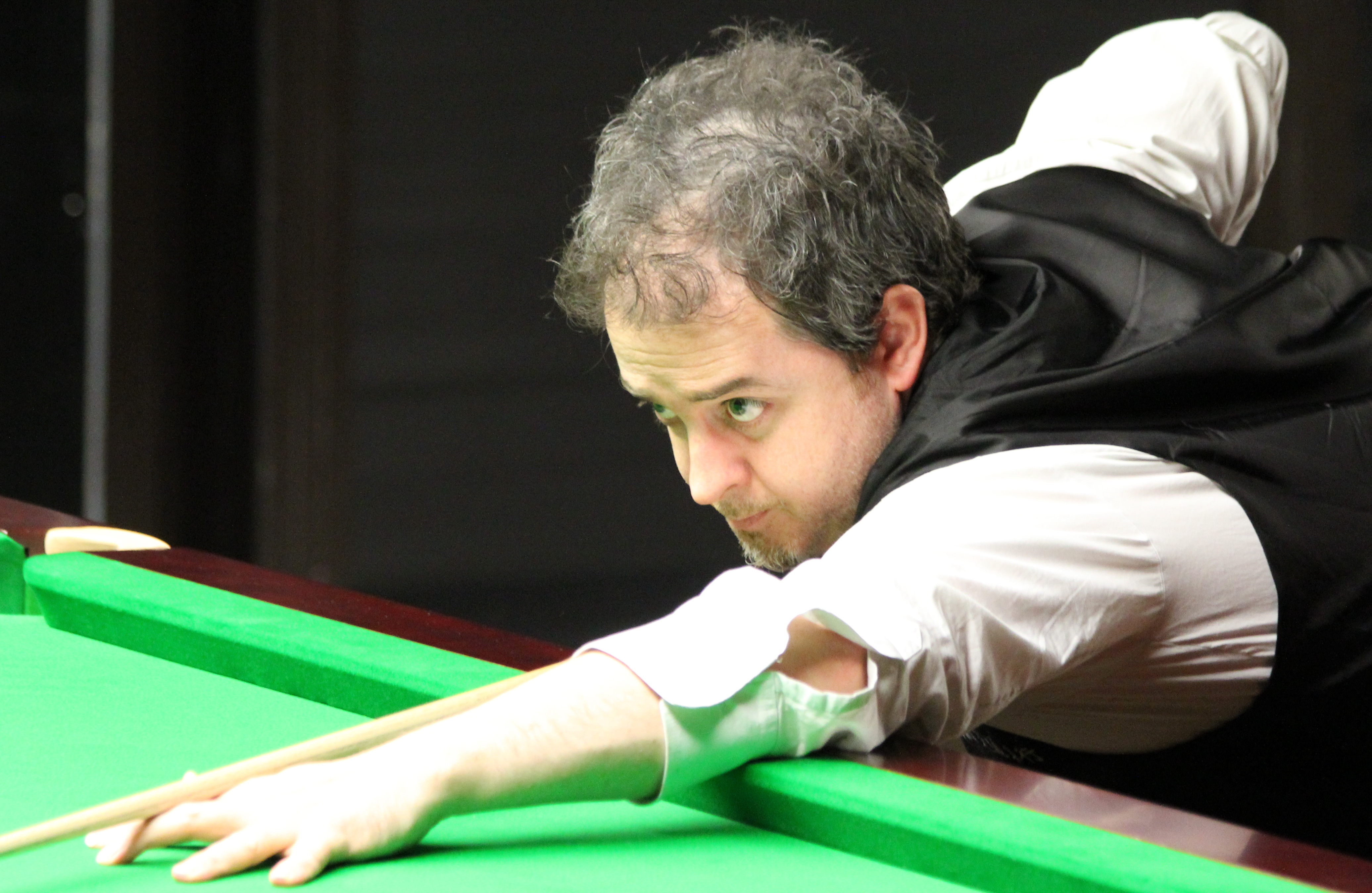 Anthony Hamilton beim Paul Hunter Classic 2012